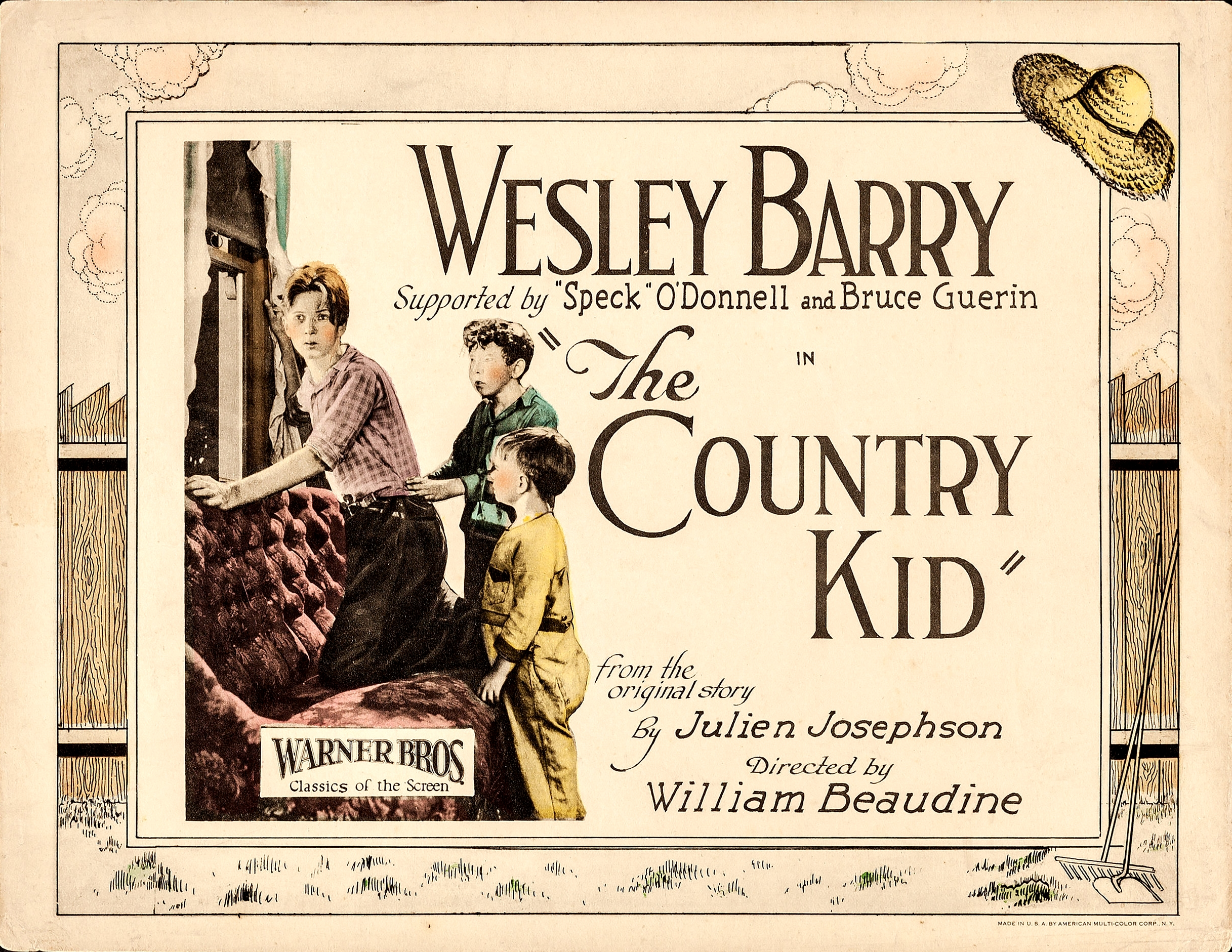 This is a lobby card for the 1923 American silent comedy drama film The Country Kid.